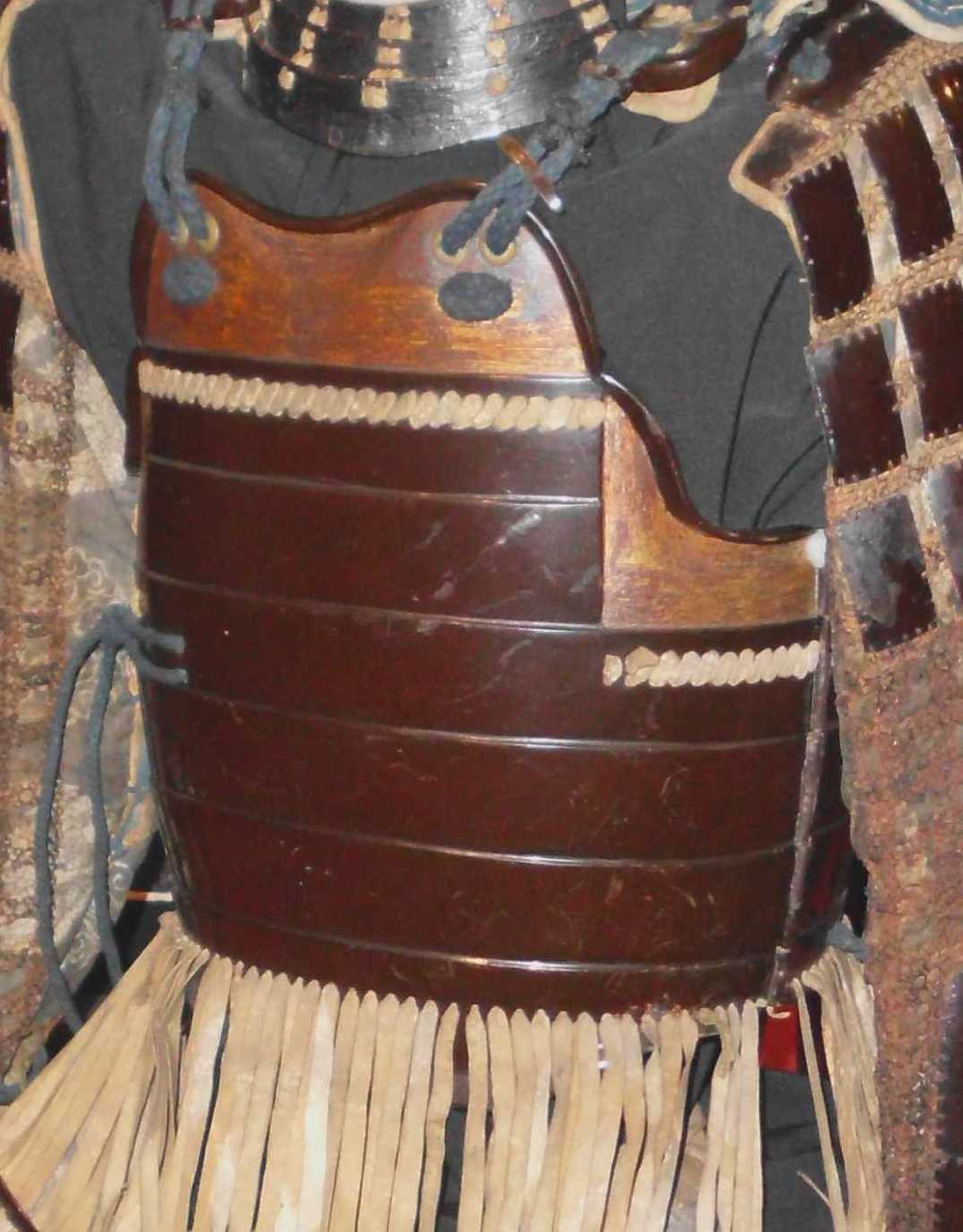 Okegawa ni mai dou (dō).